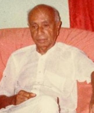 G M Sayed